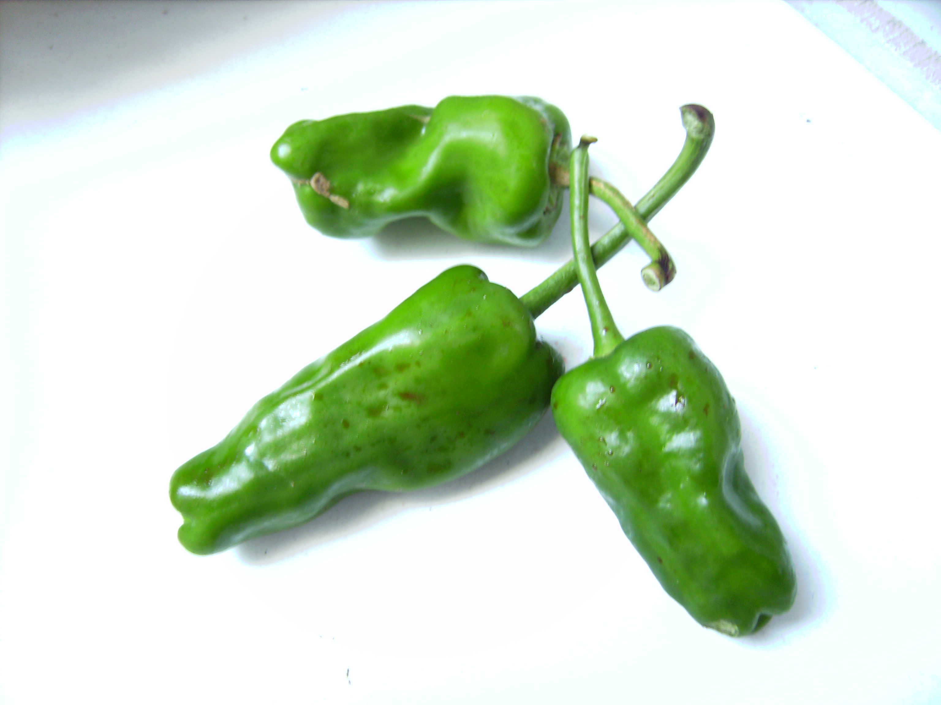 Pepper of Padrón variety croped in Castellatallat, Catalonia